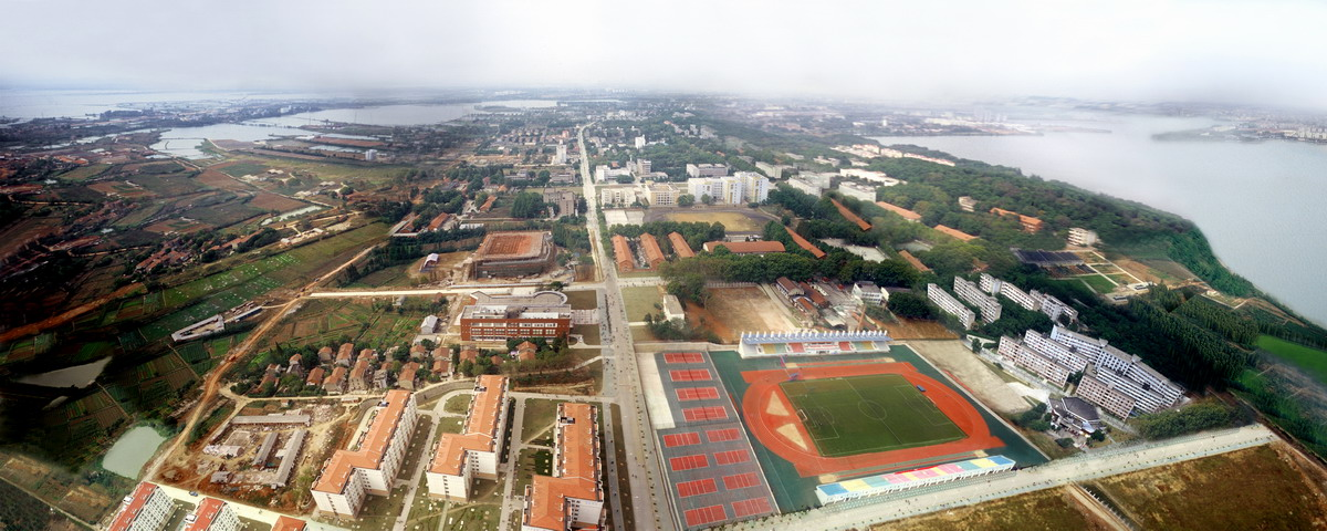 Bird's eye view of the Huazhong Agricultural University campus on the southern outskirts of Wuhan. Looking due west. South Lake (Nanhu) is on the right